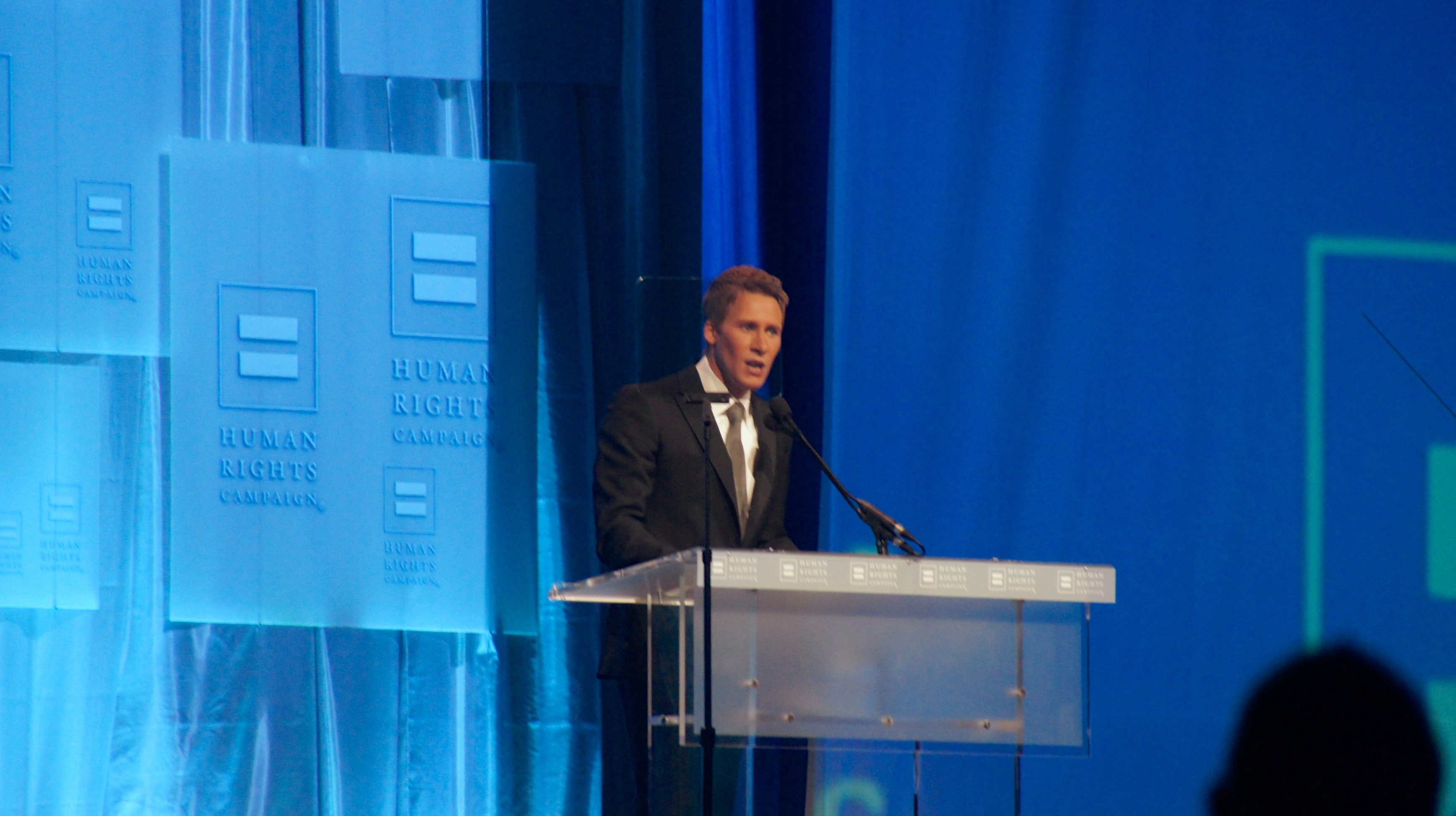 Dustin Lance Black - the 2012 Human Rights Campaign National Dinner on Saturday, October 6 in Washington, DC, USA